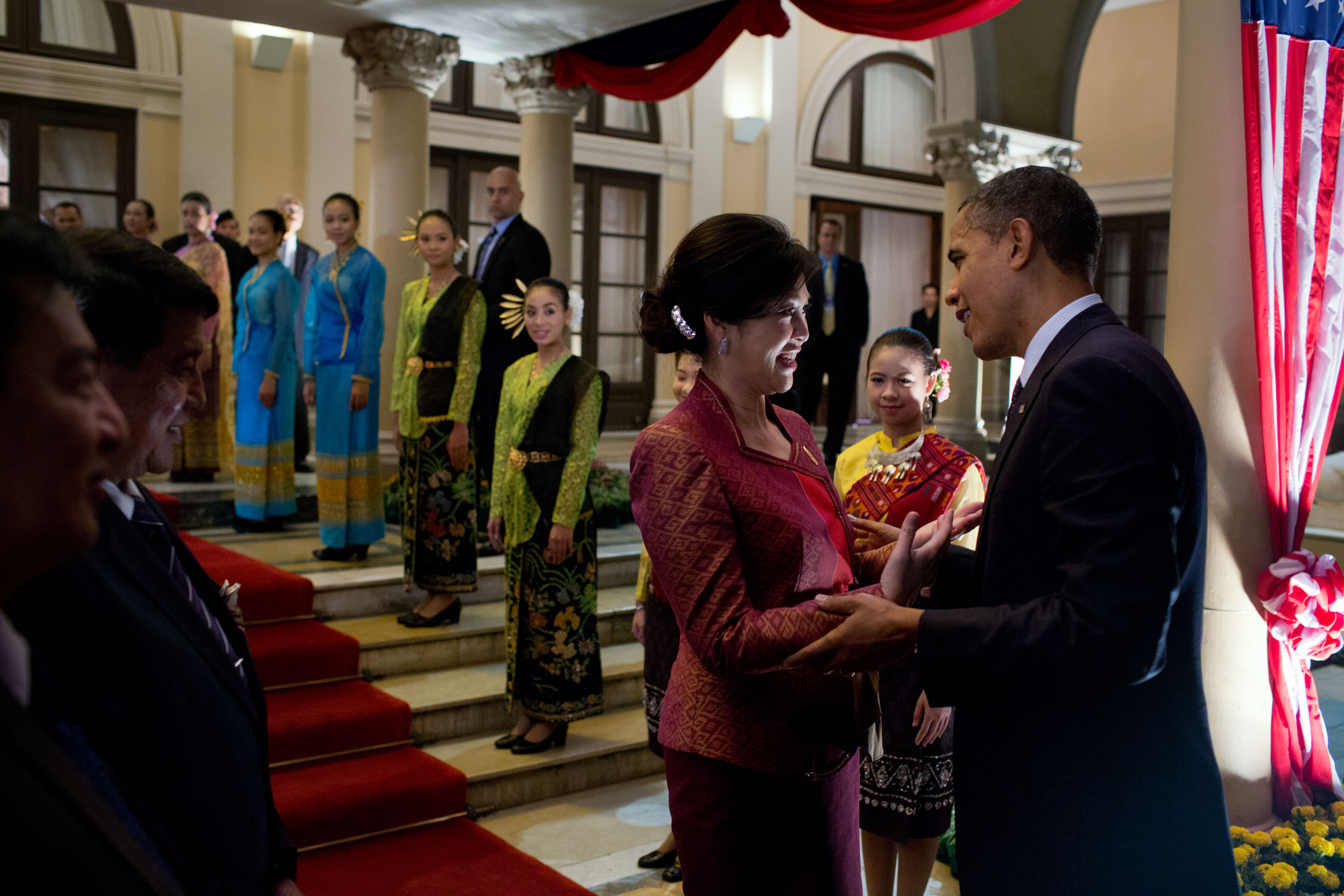 United States President Barack Obama talks with Thai Prime Minister Yingluck Shinawatra before departing the Government House of Thailand in Bangkok on 18 November 2012. Thai welcome performers line the stairs.